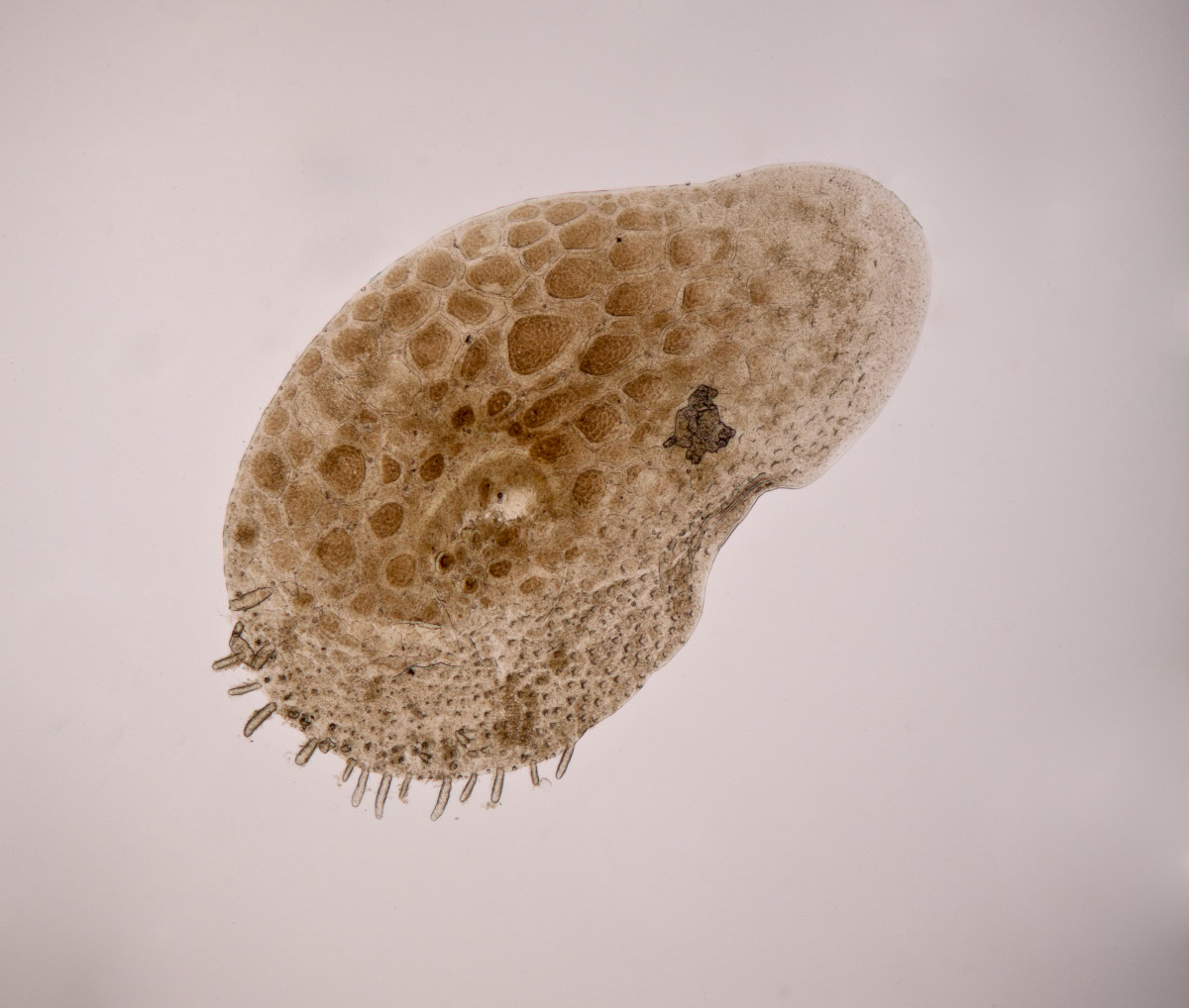 Microscope image of an elytron from Augenerilepidonotus dictyolepis. Museums Victoria specimen.